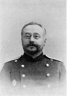 Павел Тимофеевич Склифосовский. 1904